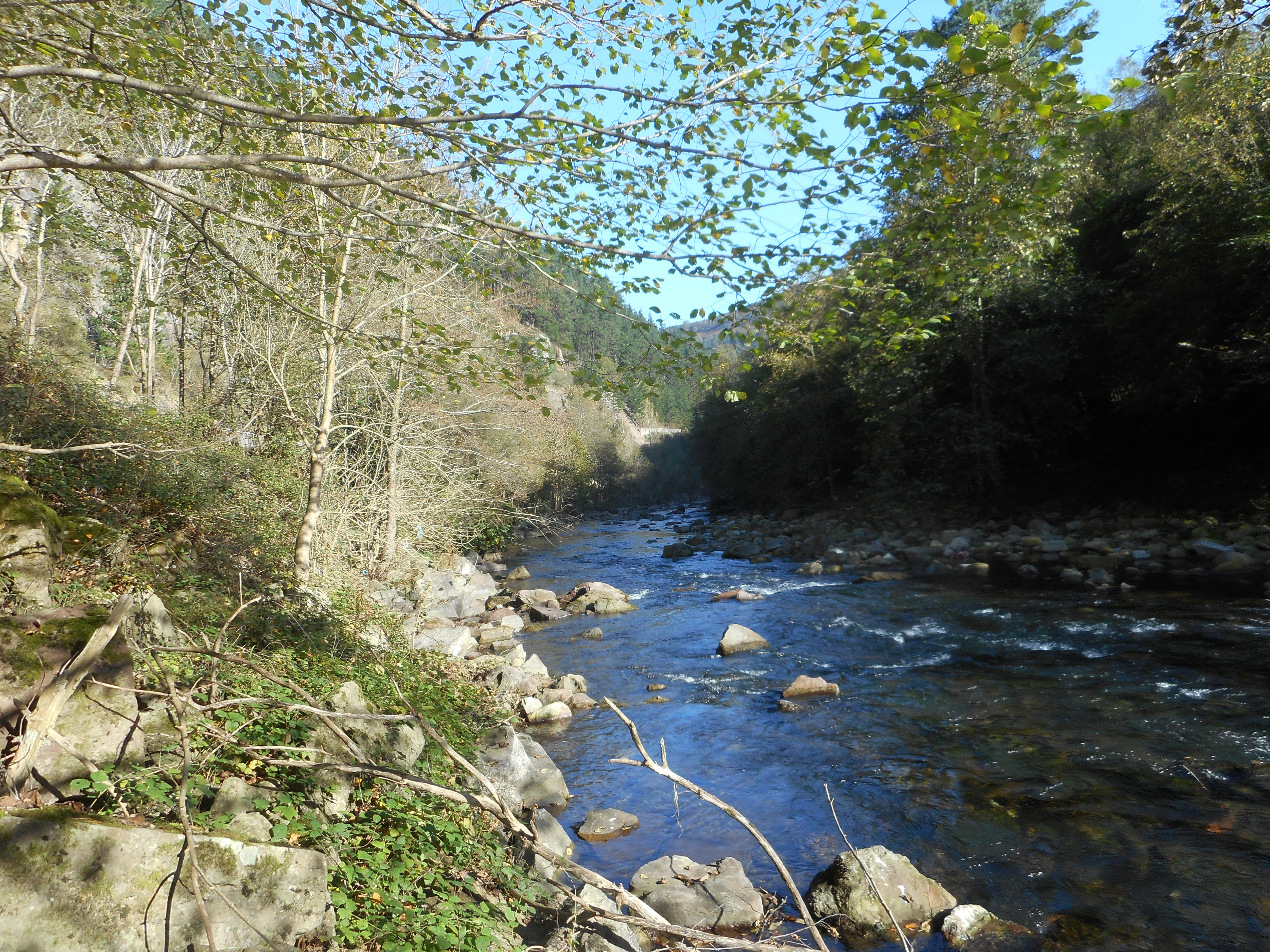 Looking down-stream on the Río Besaya at a point where it flows through a gorge south of the town of Torrelavega in the single province Autonomous Community of Cantabria, in northern Spain.